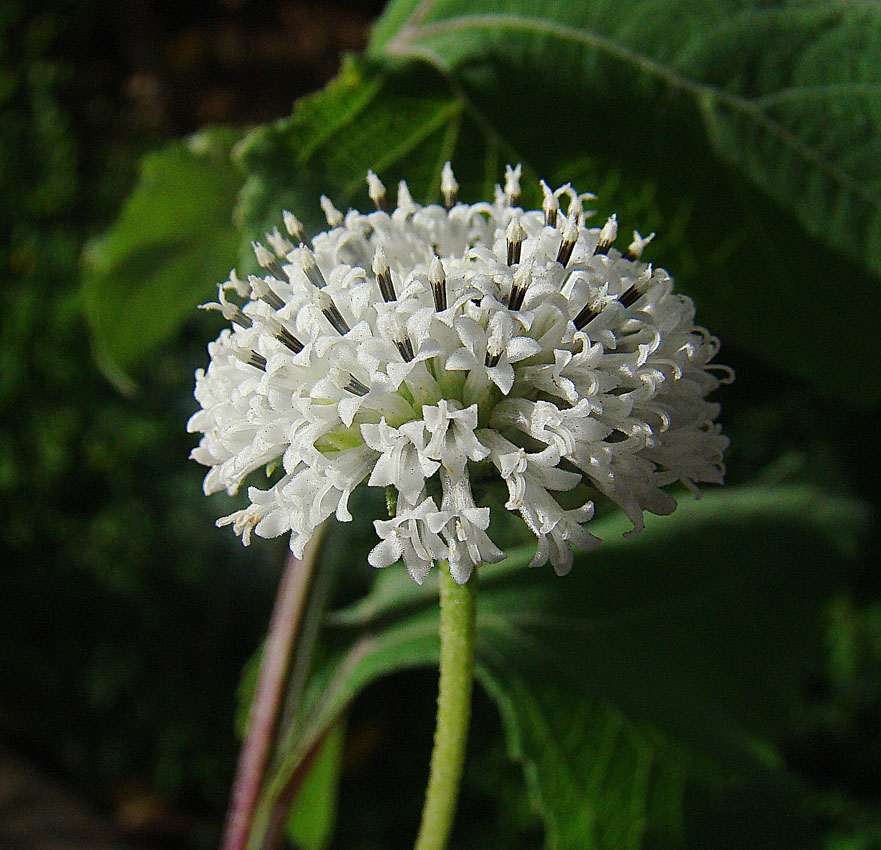 Here in central Nicaragua, better known as Paira. In context at